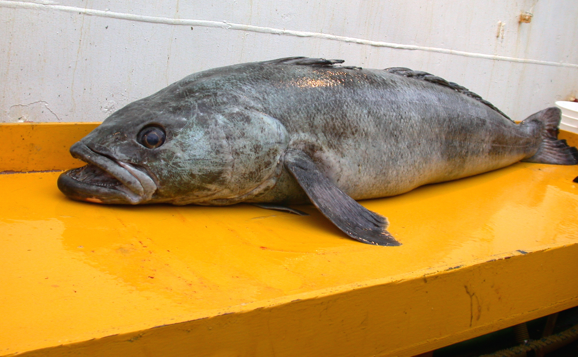 Dissostichus mawsoni